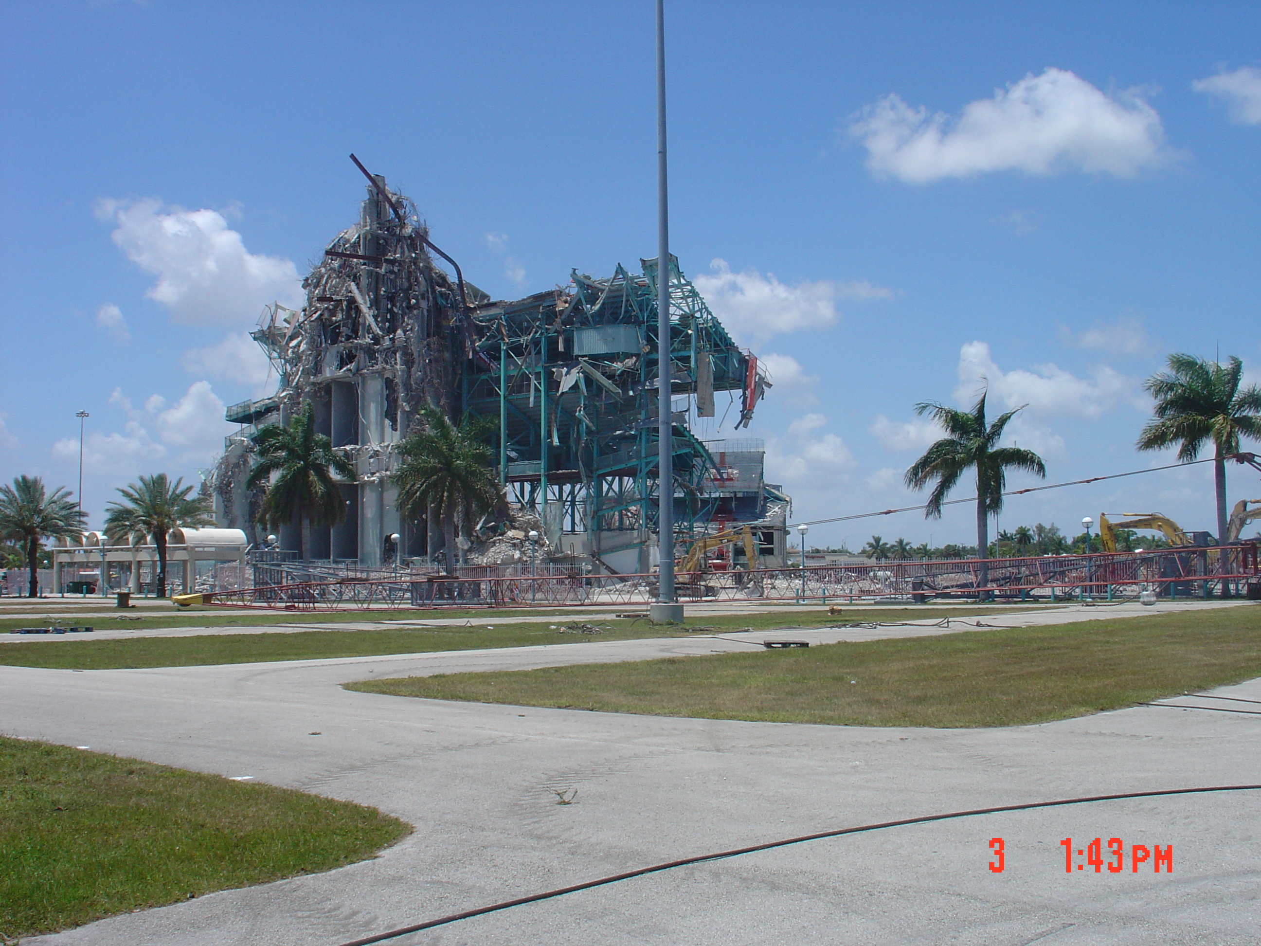 The final piece.